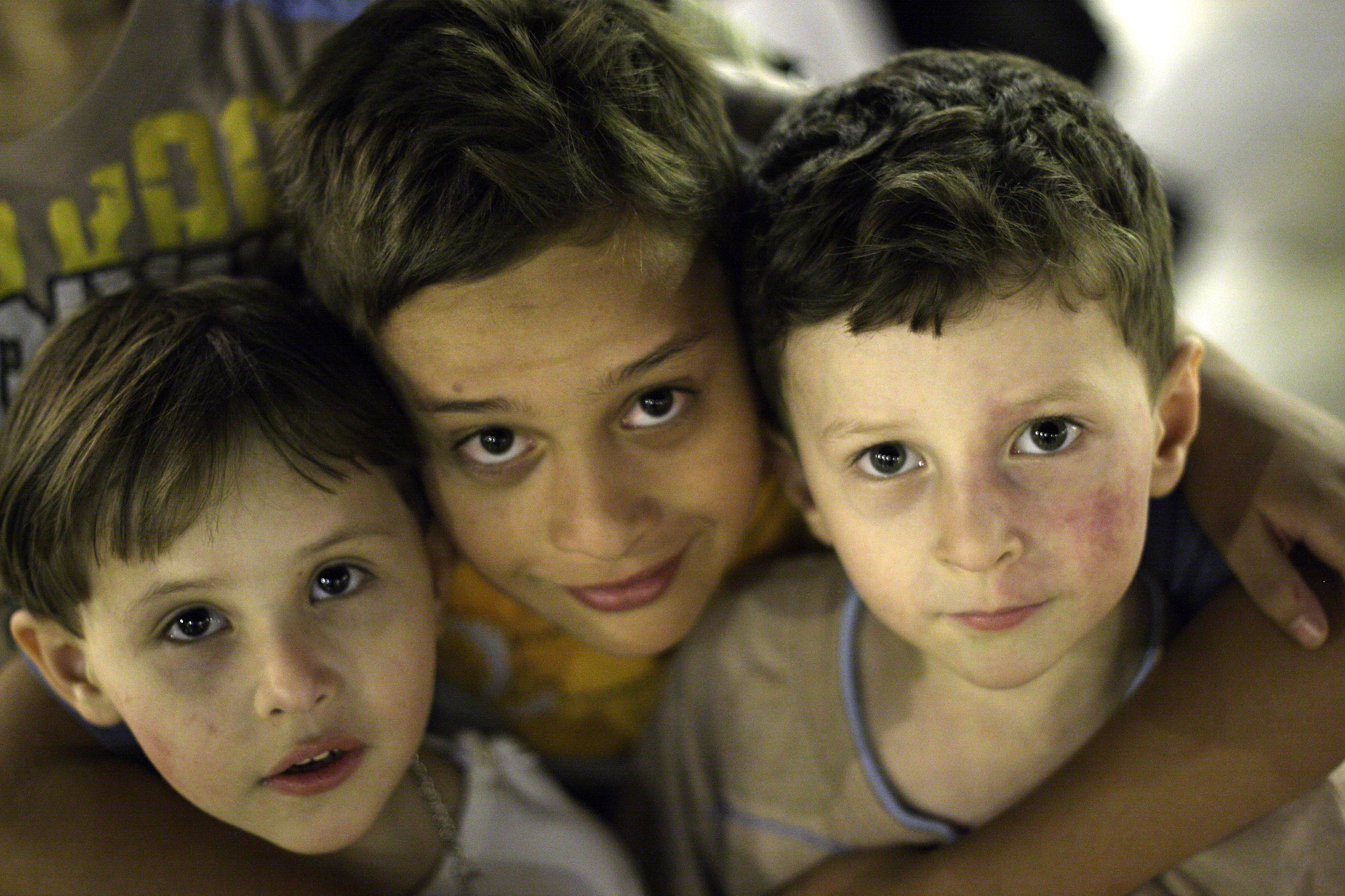 Great Mosque of Aleppo